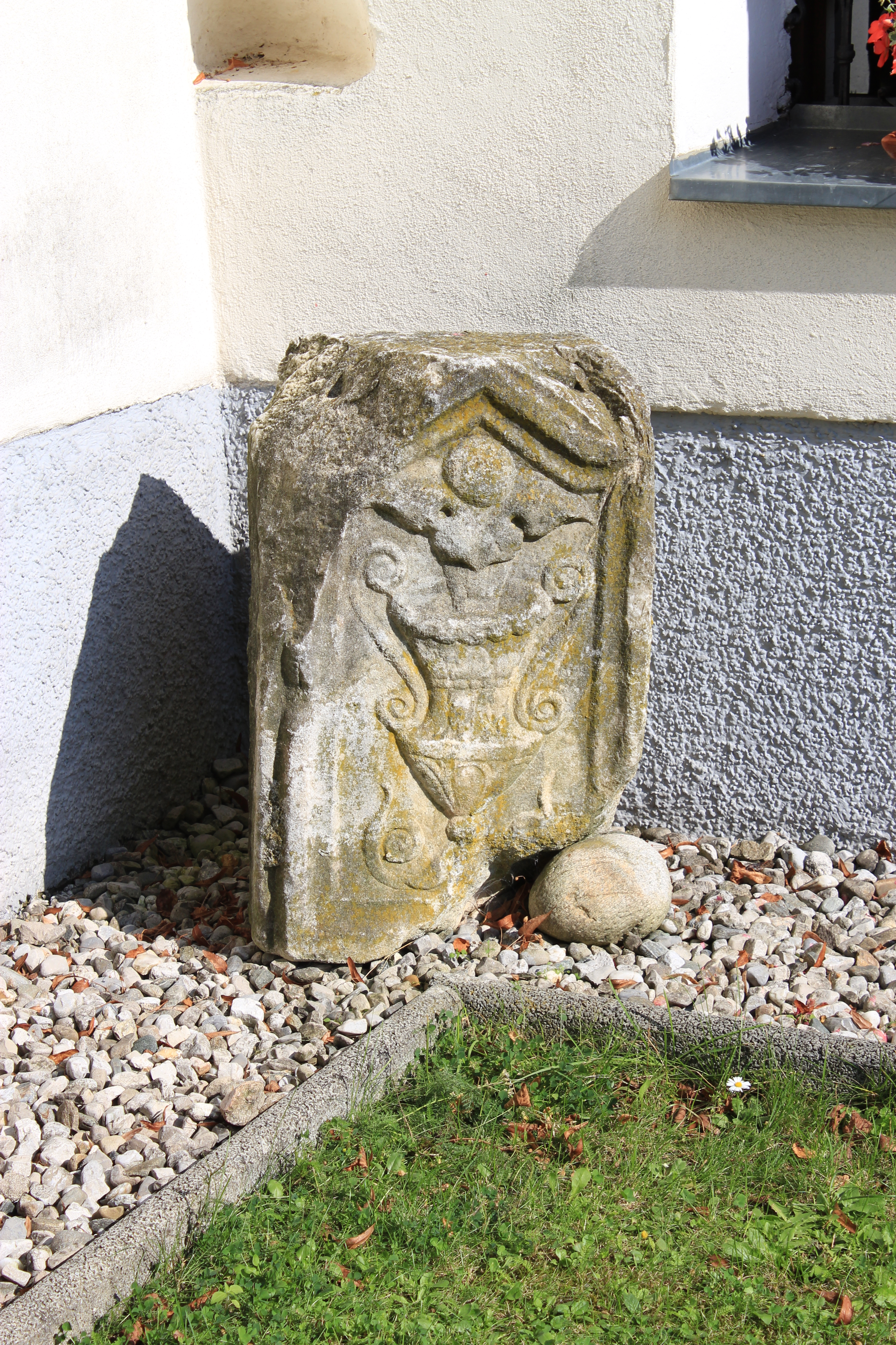 Church of St. Peter in the community of Spittal an der Drau - Römerstein